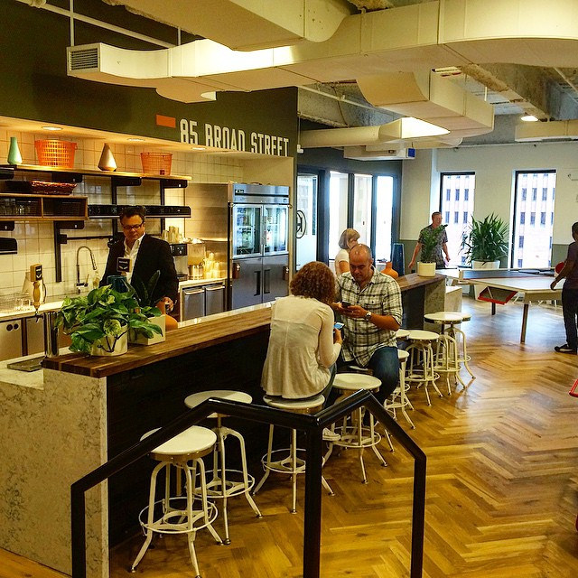 Craft beer on tap is flowing in the kitchen #oceast #wework